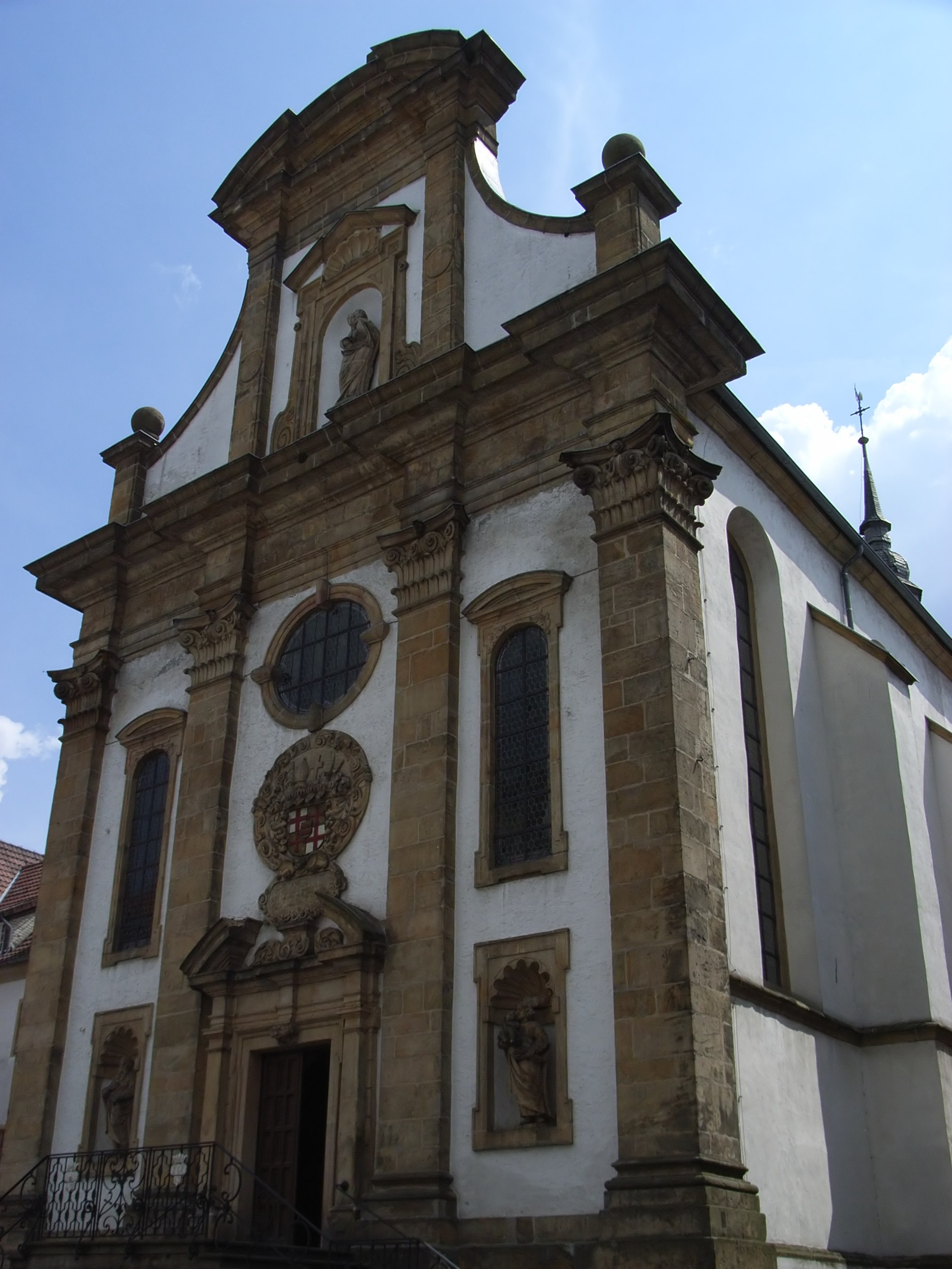 Paderborn, Germany: Franciscan church.